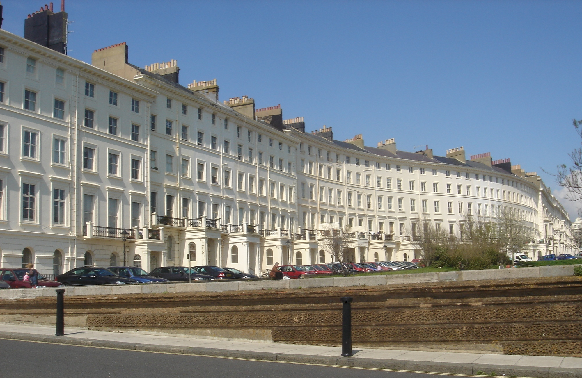 20–38 Adelaide Crescent, Hove, City of Brighton and Hove, England. The west side of the Adelaide Crescent development built in 1860. Listed at Grade II* by English Heritage (IoE Code 365479)